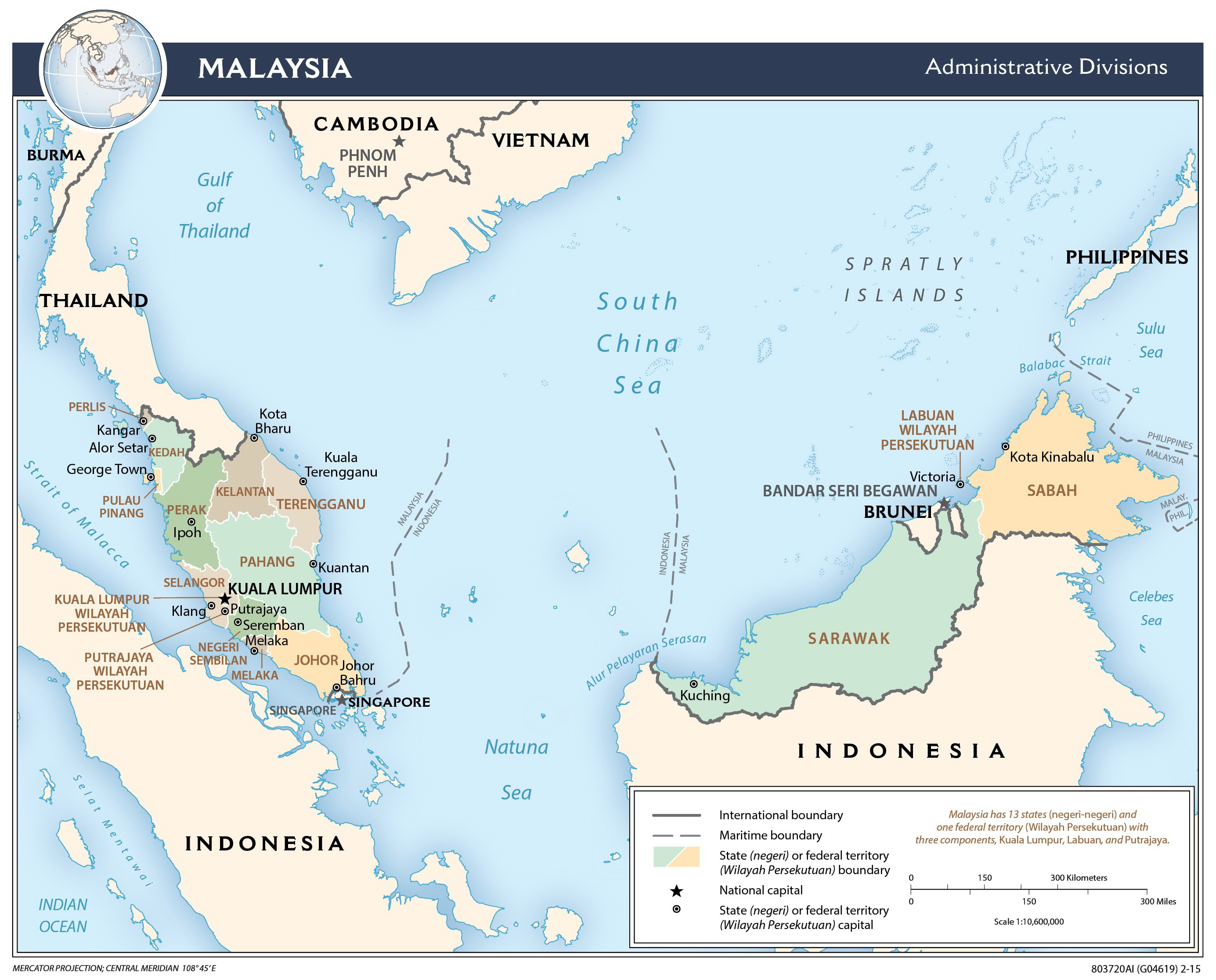 Map of administrative divisions of Malaysia, 2015.